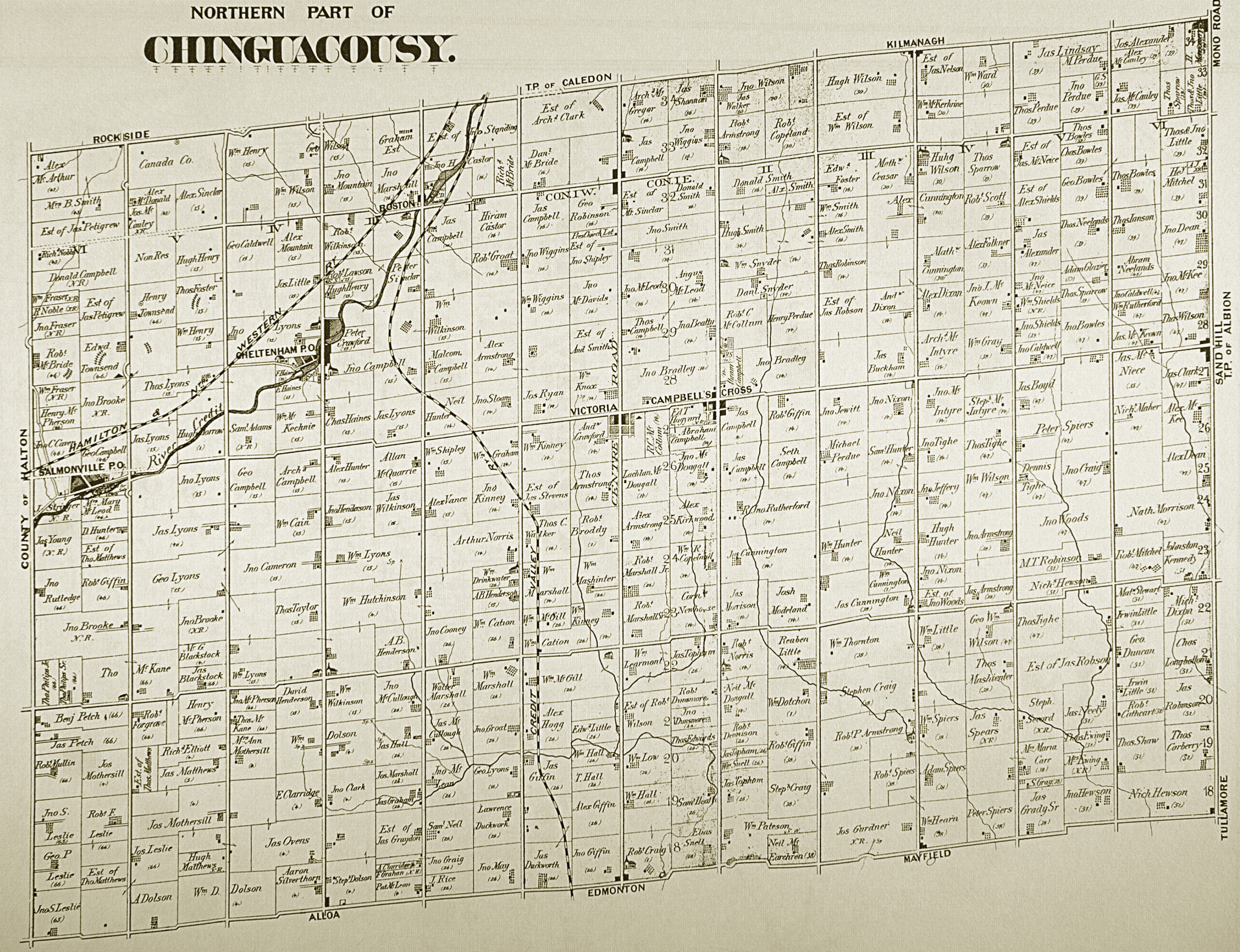 Map of the northern portion of Chinguacousy Township, 1880.